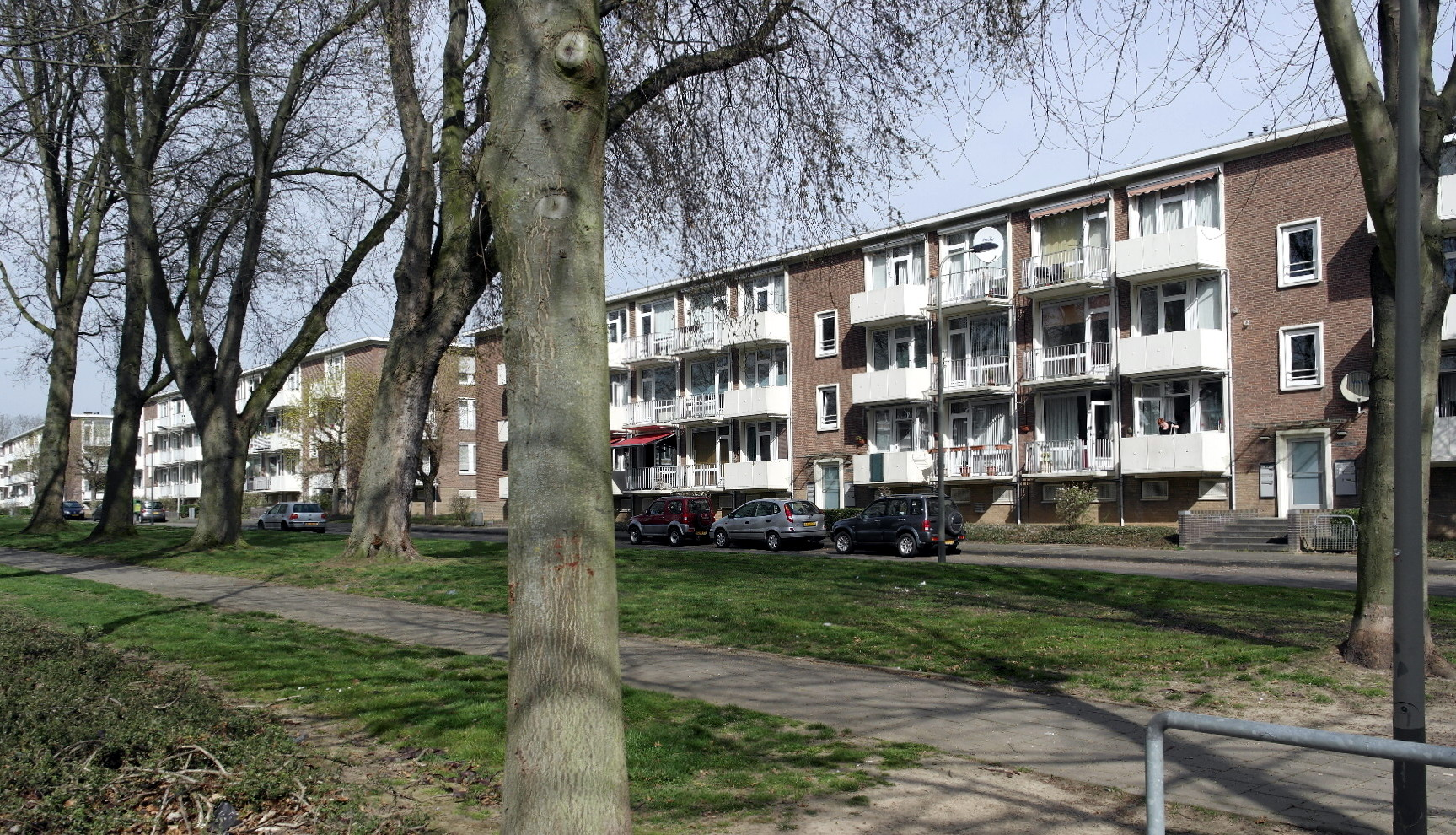 Maastricht, the Netherlands. View of typical early 1960s apartment blocks in the Maastricht-West neighbourhood of Pottenberg.